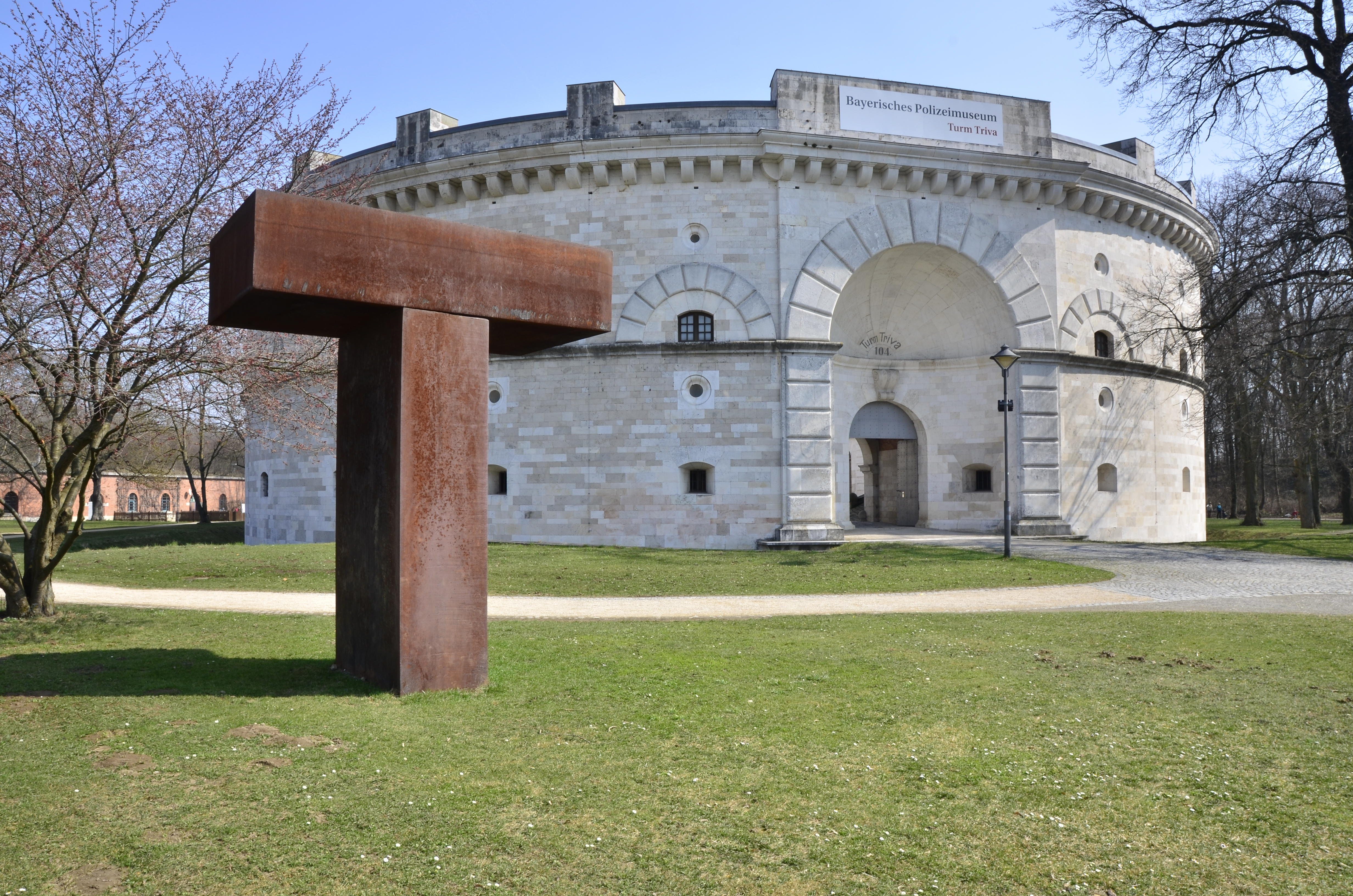 Fortification of Ingolstadt, Triva Tower, Police Museum